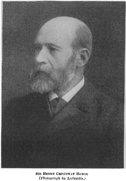 A portrait photograph of Sir Henry Greenway Howse, taken by Lafayette and published in the British Medical Journal as part of an obituary. Sir Henry Howse was a former president of the Royal College of Surgeons.